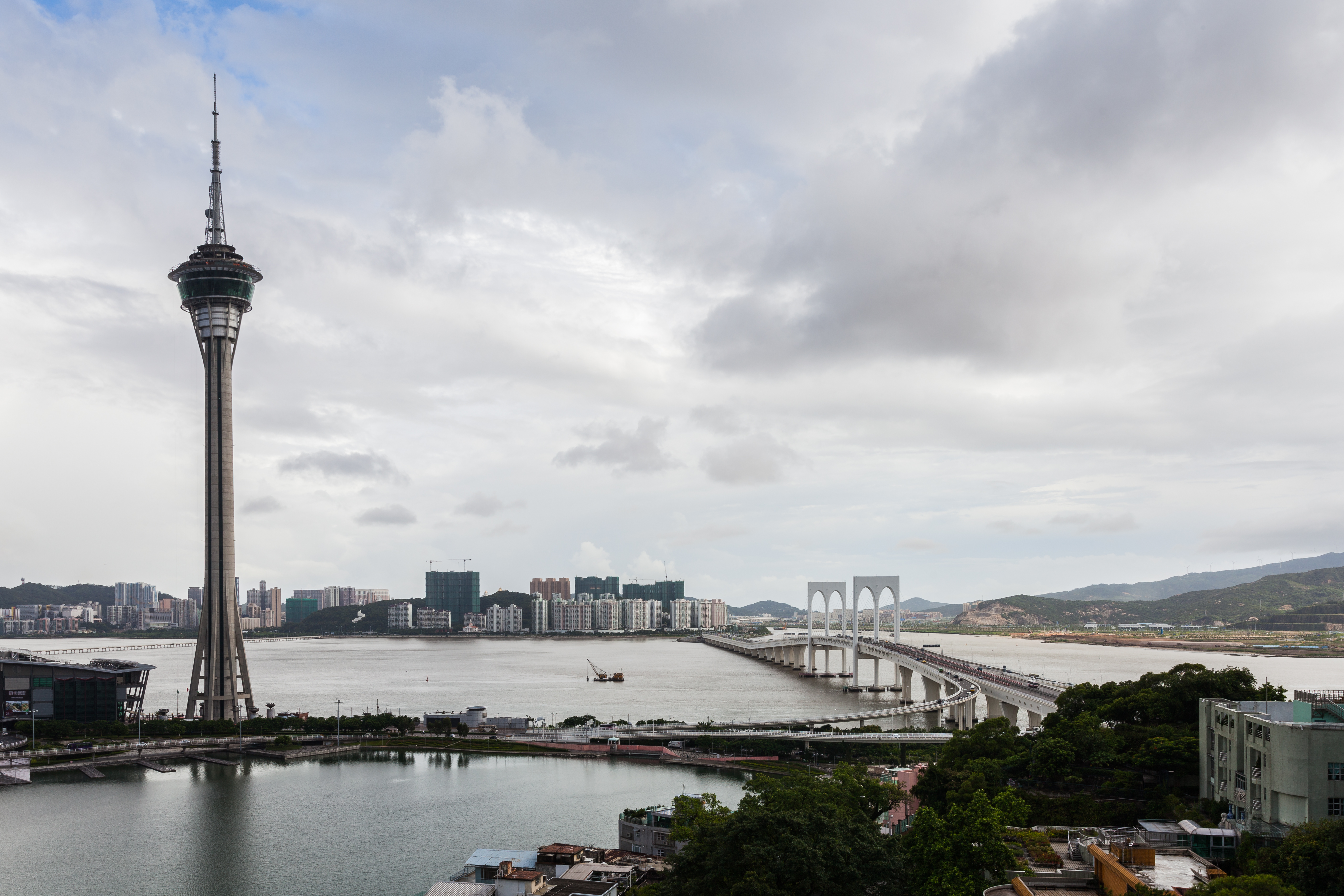 View of Sai Van Bridge and the Macau Tower with the island of Taipa in the background, Macau